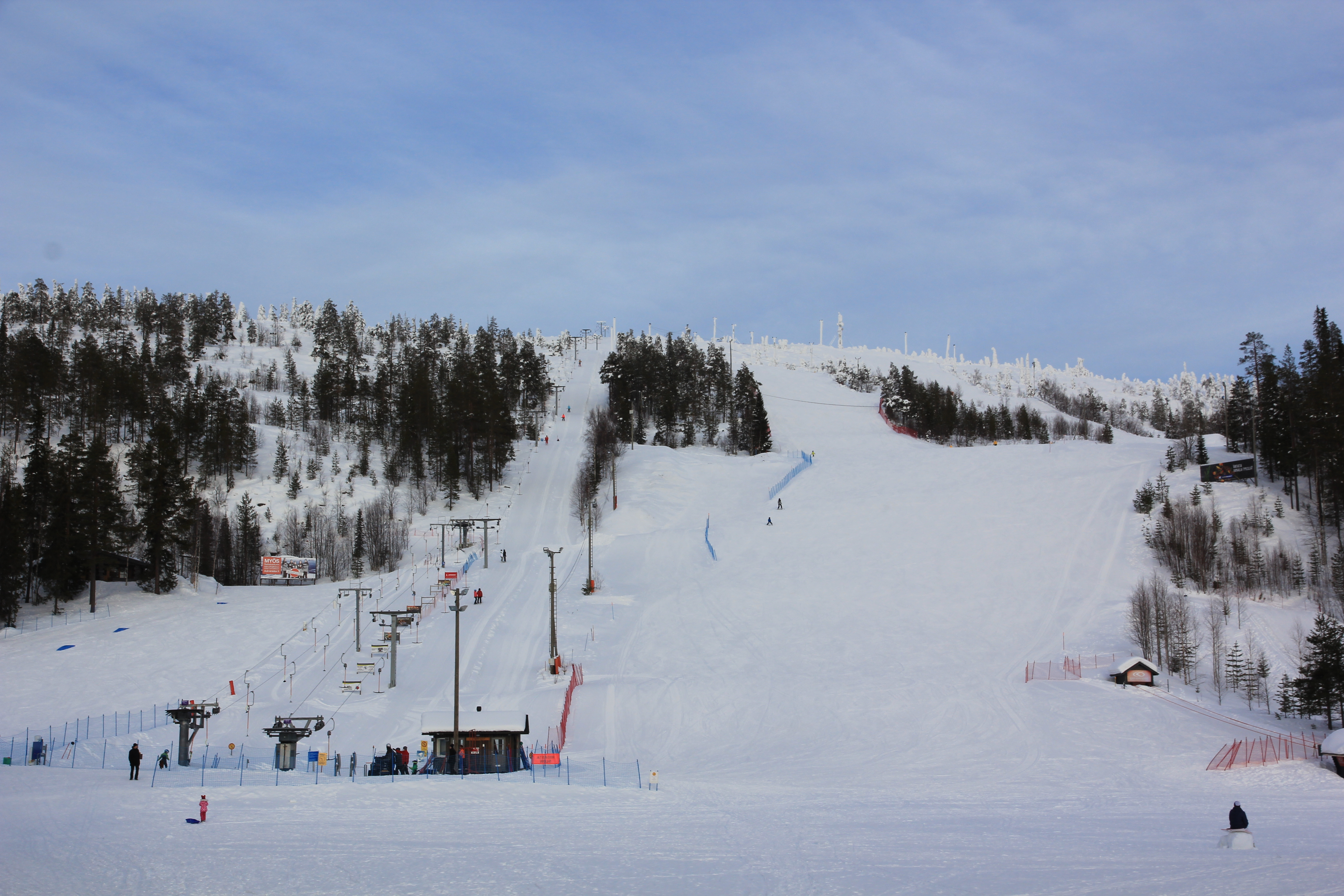 Main piste of Salla ski resort.